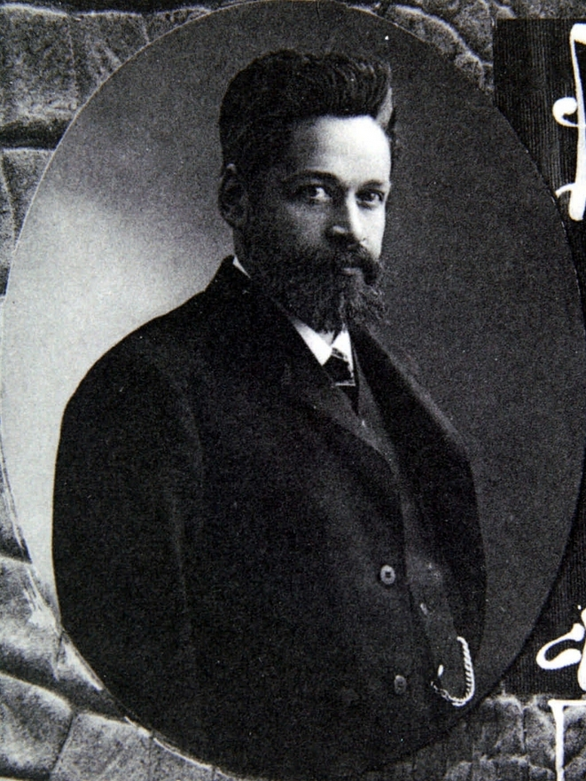 Andrei Ivanovich Shingarev